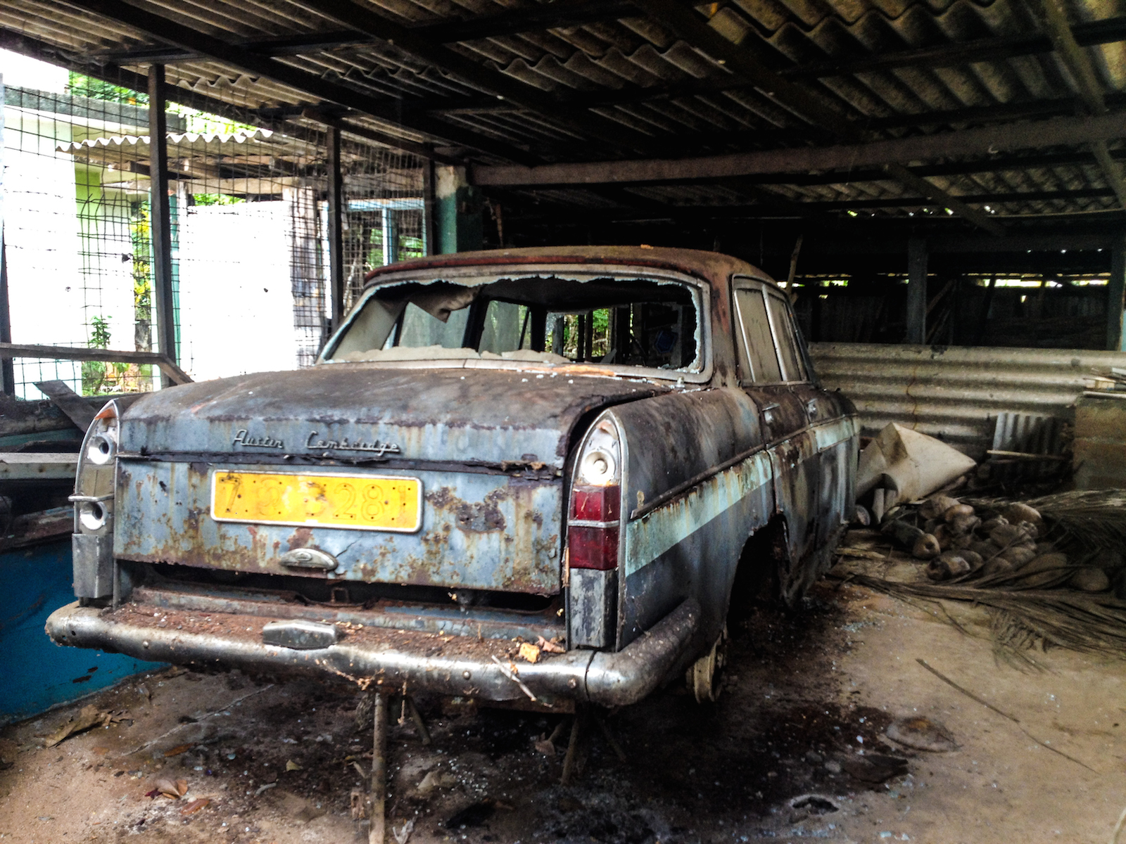 IMG_9049 Photos around the aftermath of the violence against the Muslim community in Aluthgama, Sri Lanka in June 2014.